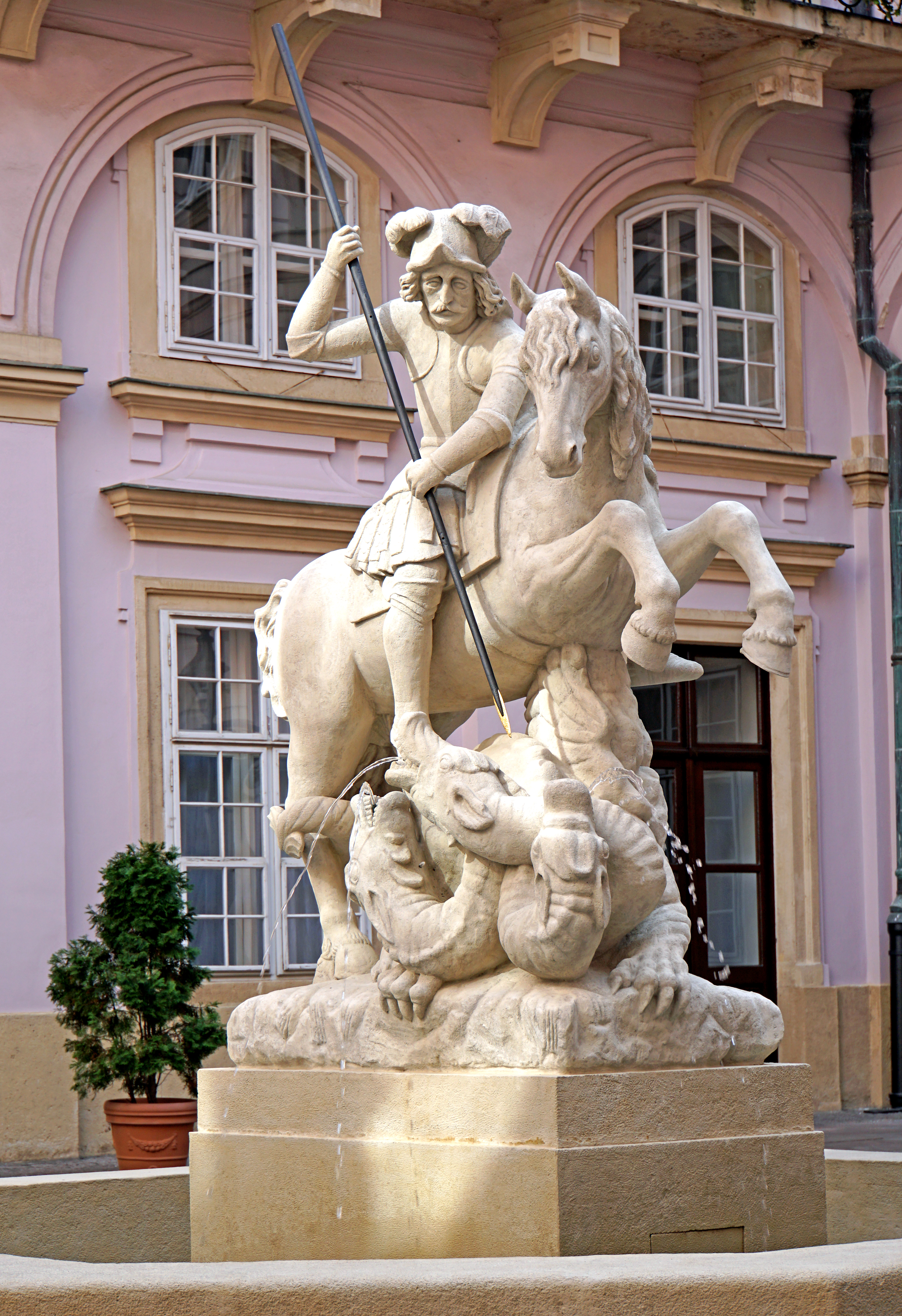 PLEASE, NO invitations or self promotions, THEY WILL BE DELETED. My photos are FREE to use, just give me credit and it would be nice if you let me know, thanks. Primate’s Palace is one the most beautiful buildings in Bratislava. It was built in the 18th century In the main courtyard is the fountain and statue of St. George. The palace serves as the seat of the Mayor of Bratislava.